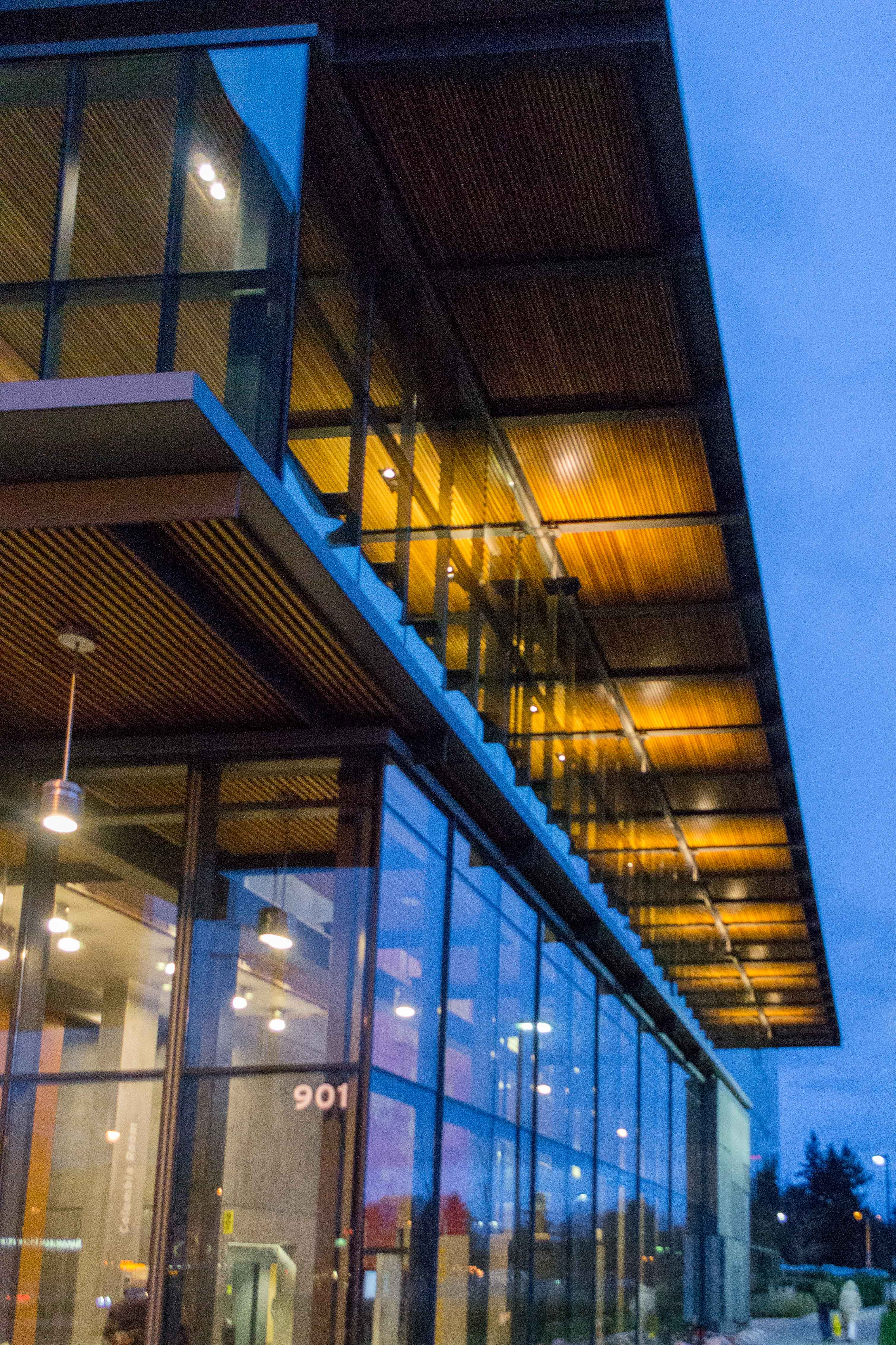 The Vancouver Community Library after sunset